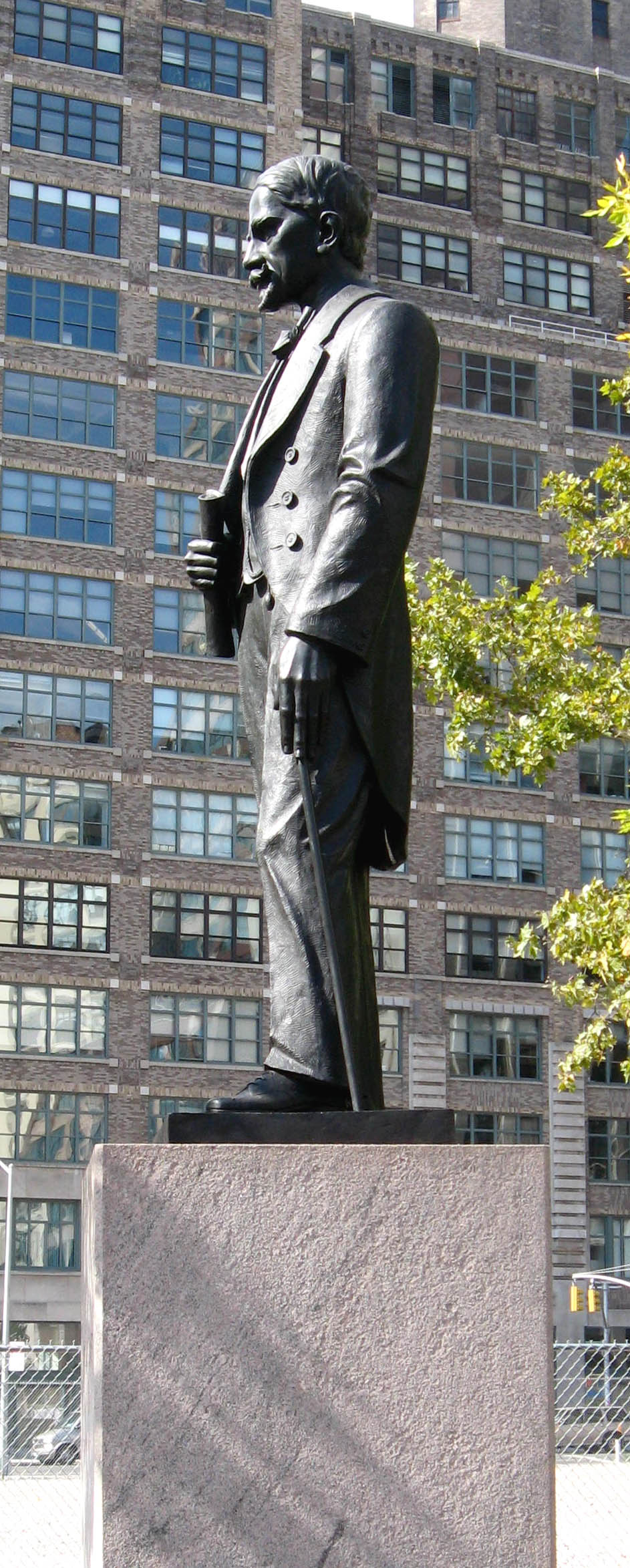 Looking west at Juan Pablo Duarte Square, which in turn looks south to Canal Street on a hazy midday, Goal #H11 for WTM This photo is of Wikis Take Manhattan goal code H11, Juan Pablo Duarte Square.